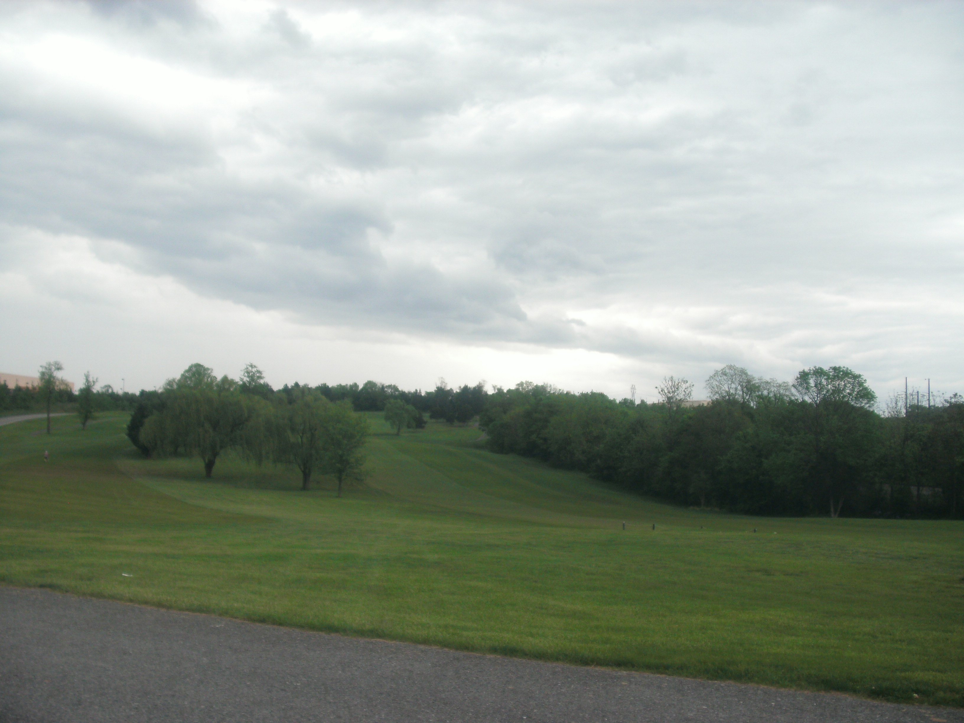 Taken by me in May, 2016 GEDSC DIGITAL CAMERA